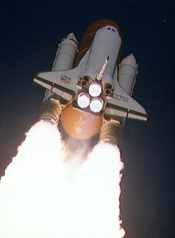 STS-41 Discovery, OV-103, KSC liftoff from a remote control tracking device. STS-41 Discovery, Orbiter Vehicle (OV) 103, riding atop the external tank (ET), begins its roll maneuver after lifting off from the Kennedy Space Center (KSC) Launch Complex (LC) Pad 39 at 7:47 am (Eastern Daylight Time (EDT)). Exhaust plumes billow from the solid rocket booster (SRB) skirts. The glow of the three space shuttle main engines (SSMEs) is visible. This photo was taken by a remote control tracking device mounted 1600 feet from epicenter and looks from the bottom of the ET to OV-103's nose.